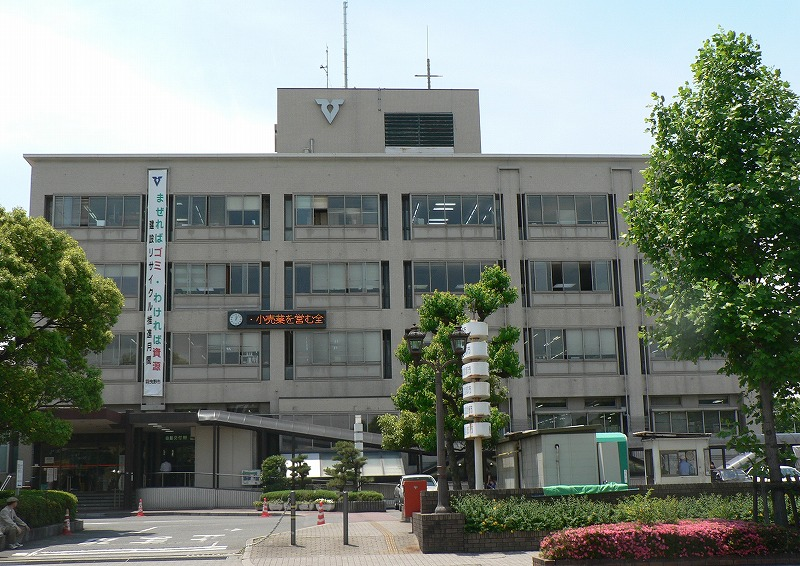 Habikino city office,Osaka,Japan （羽曳野市役所）